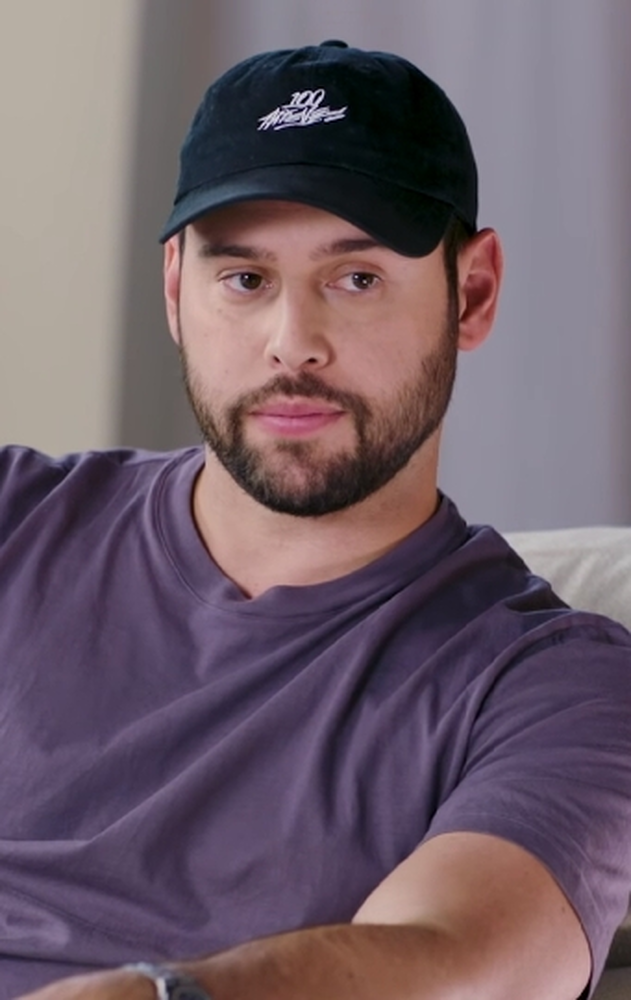 Scooter Braun during an interview in 2020.